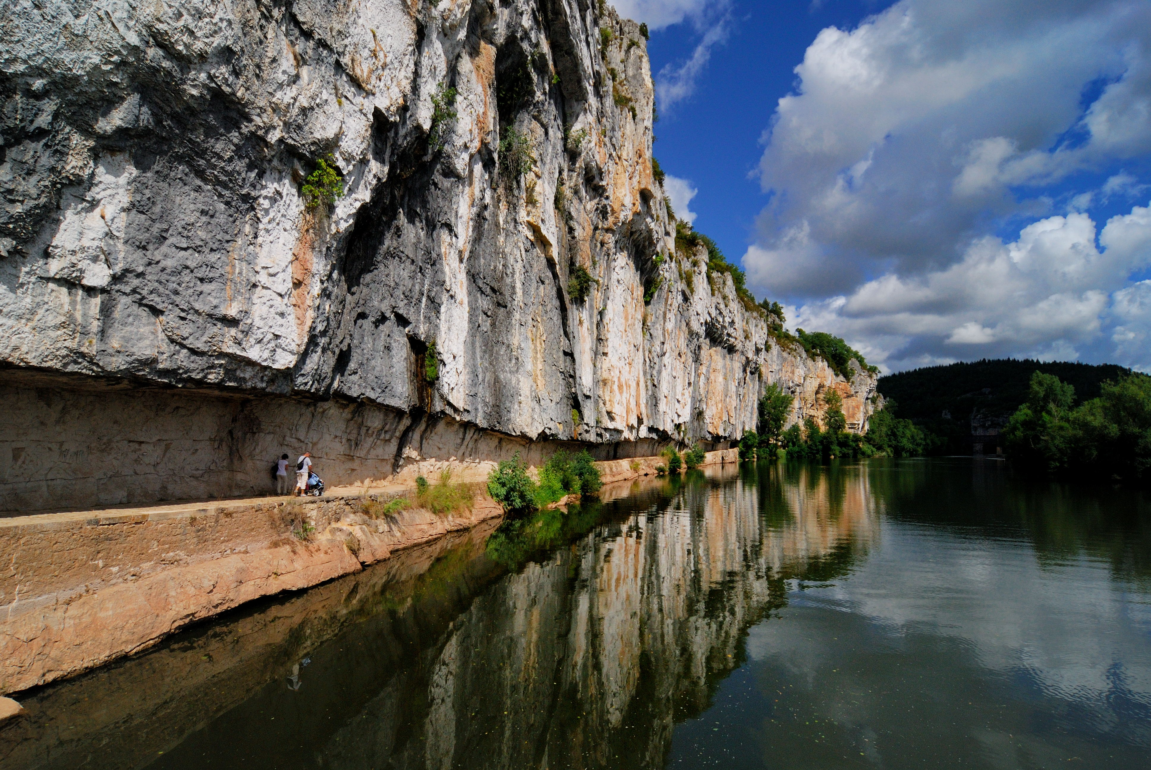 A towpath carved into the side of a cliff, in the community of Bouziès in Lot